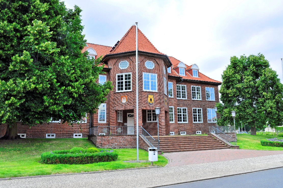 Rathaus Cuxhaven 2015